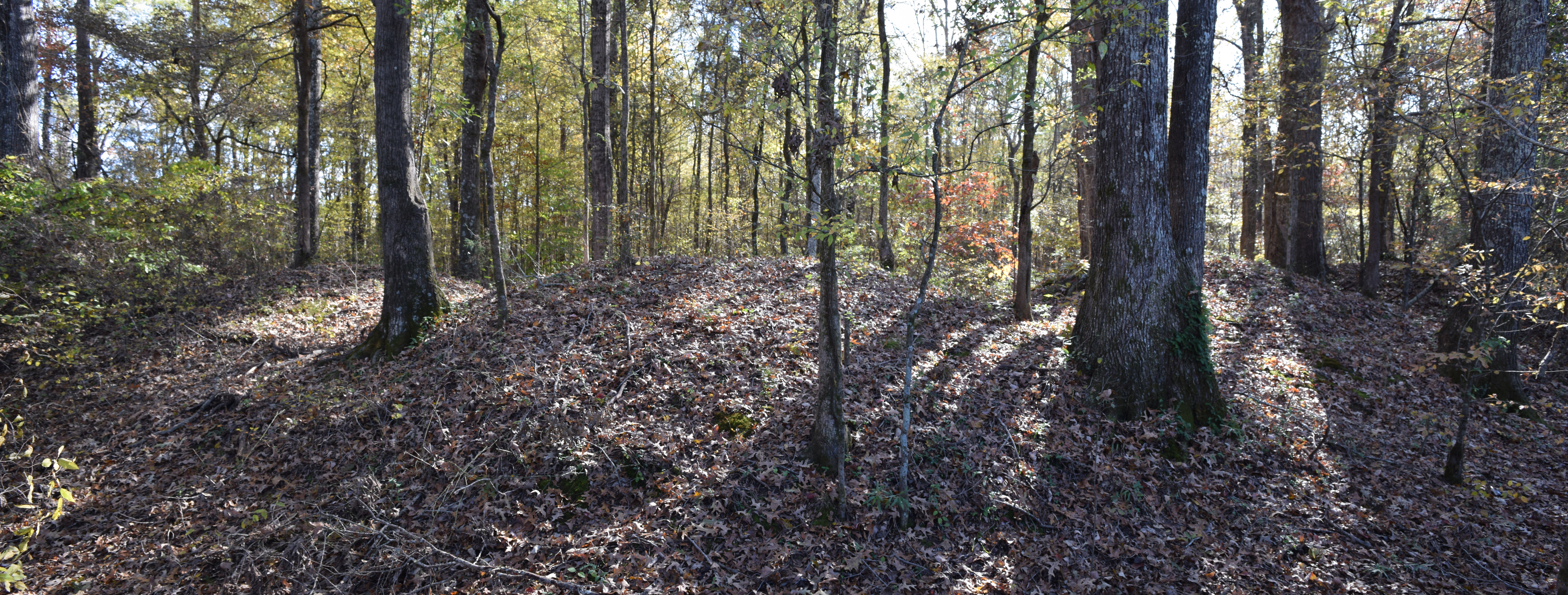 The Civil War Earthworks at Tallahatchie Crossing that were parapets for Union cannons during the American Civil War in Marshall County, Mississippi